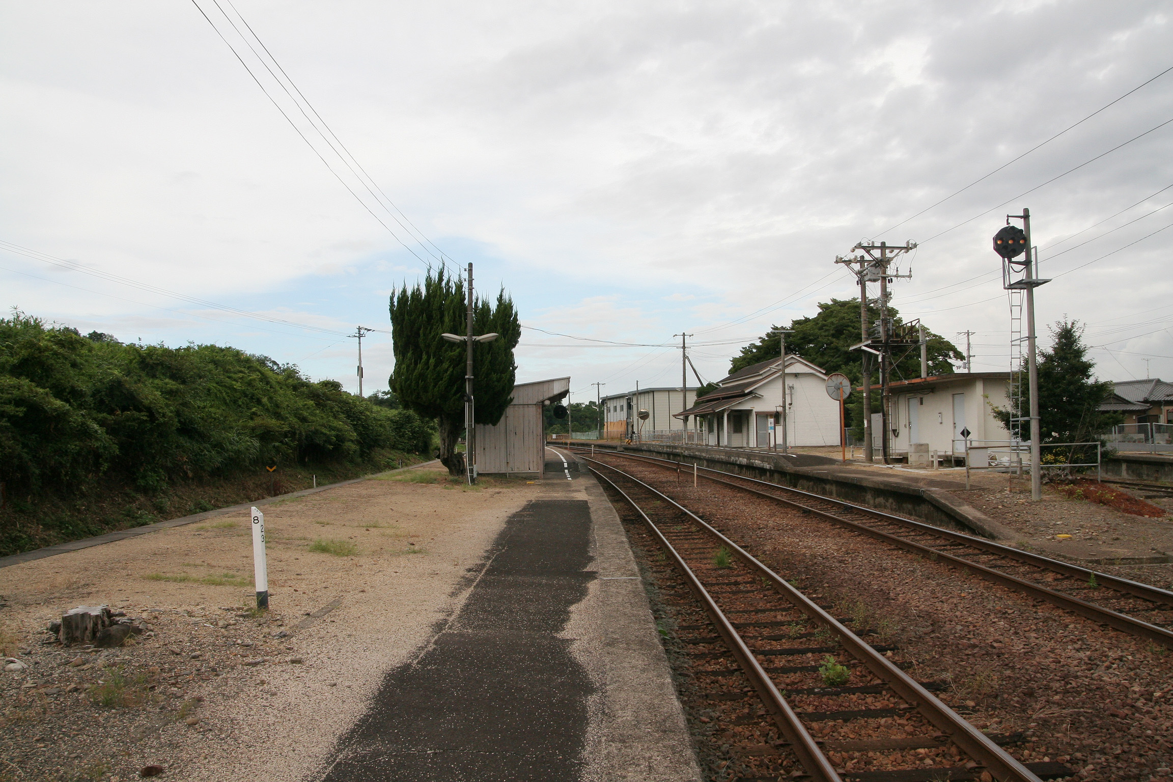 Shikoku Railway Dosan Line sanuki-saida Station enclosure